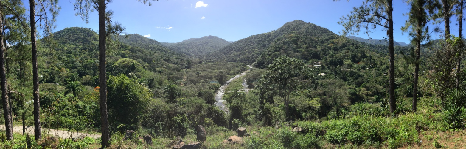 Taken at Televisión Serrana